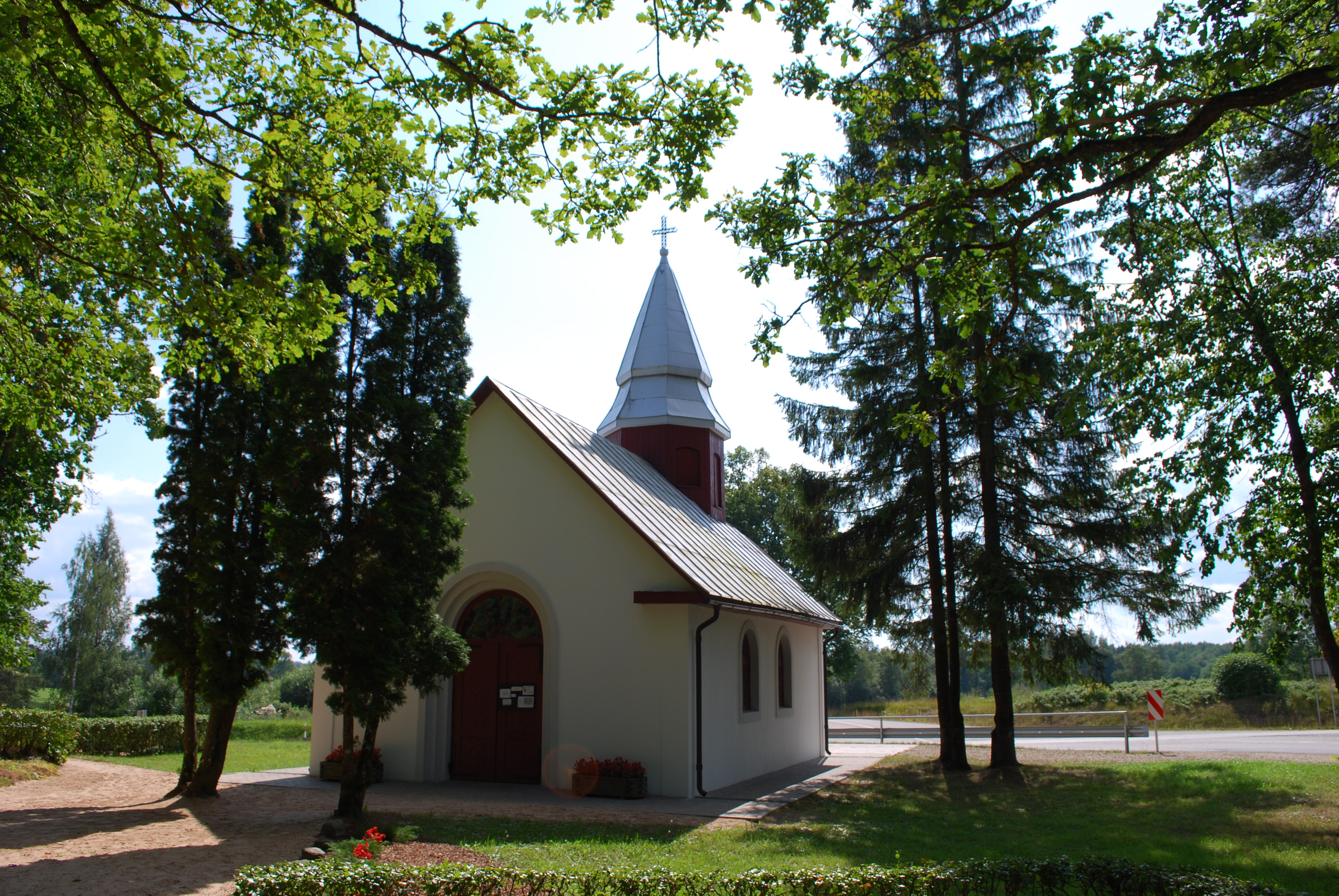 Veselava Cemetery Chapel